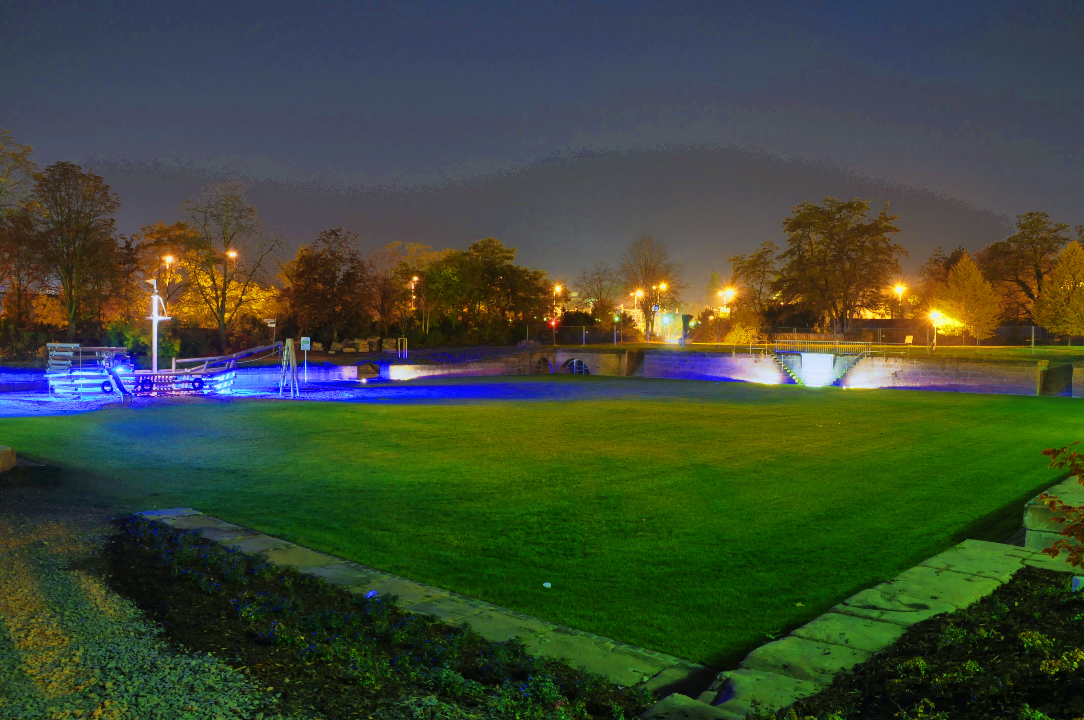 The old channel harbor of Frankenthal at Night.